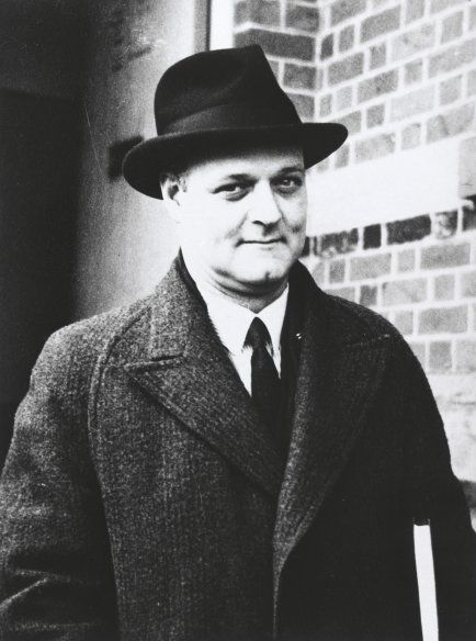 A portrait of John Vincent William Barry.